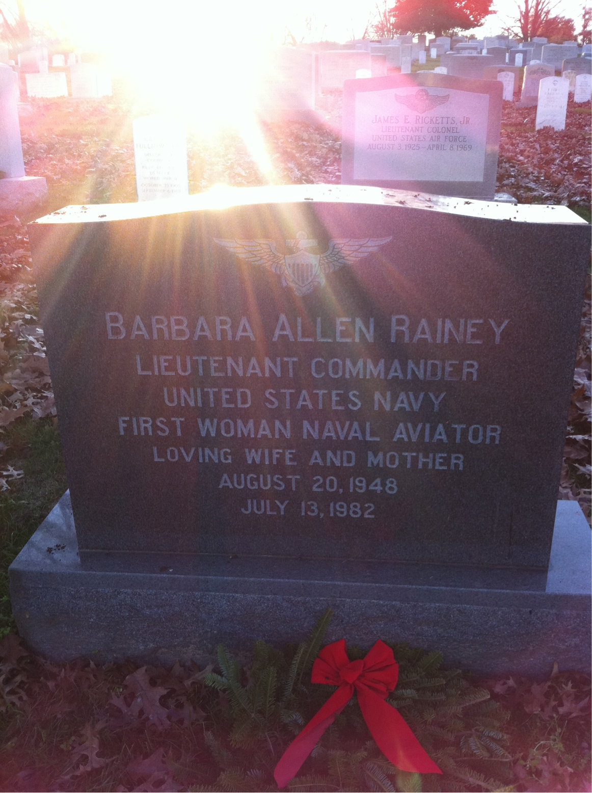 Grave of Barbara Allen Rainey at Arlington National Cemetery